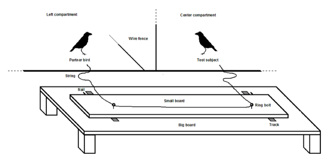 Fig 1. from scientific article titled Partner Choice in Raven (Corvus corax) Cooperation, by Kenji Asakawa-Haas, Martina Schiestl, Thomas Bugnyar, Jorg J. M. Massen Published: June 10, 2016 The small board could move along the tracks if the strings were simultaneously pulled. If only one subject pulled or if both subjects pulled asynchronously, the string was pulled through the ringbolts without affecting the small board.